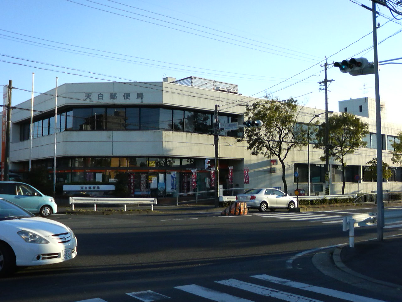 Tempaku Post Office in Tempaku-ku, Nagoya, Aichi